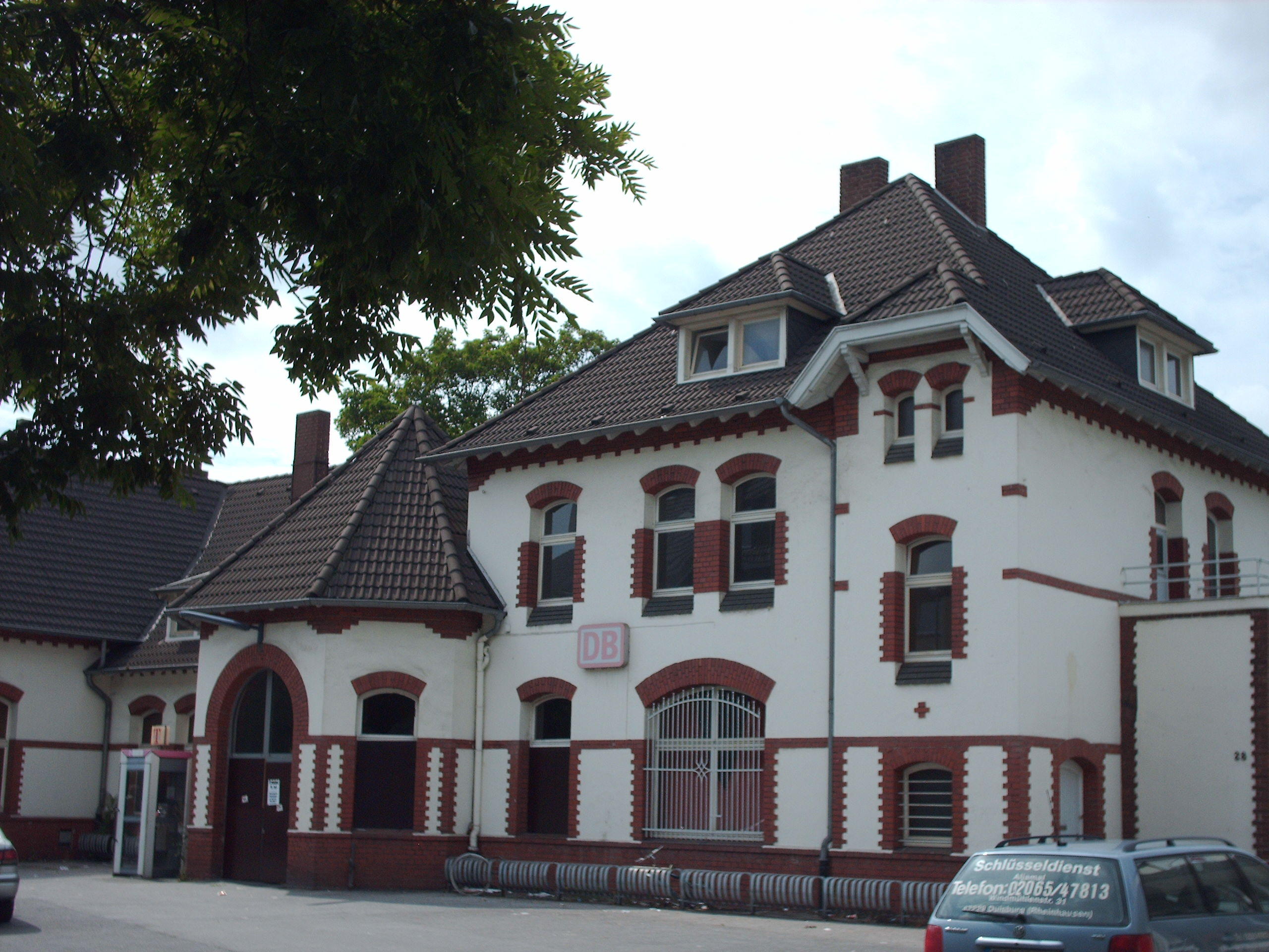 Rheinhausen station, Duisburg, Germany check usage